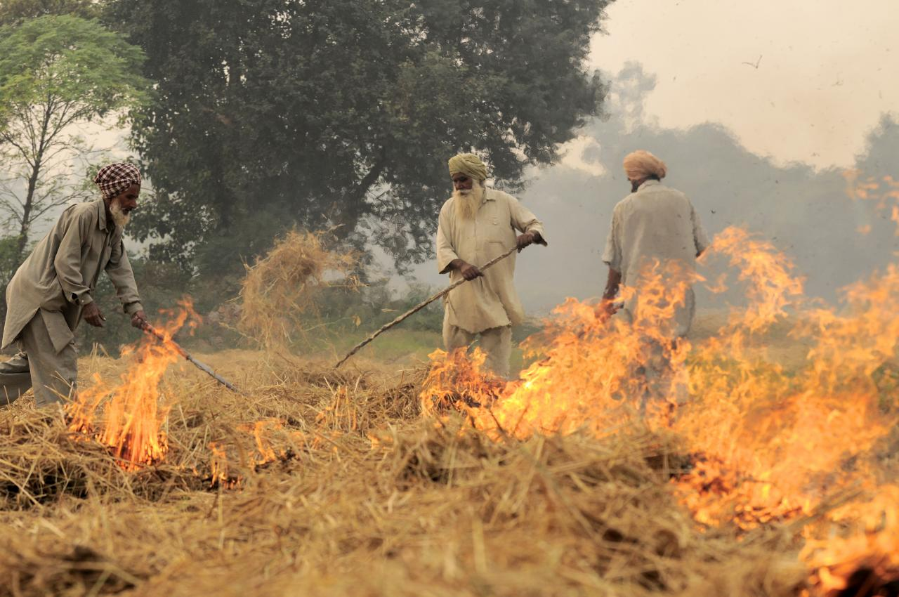 Pic by Neil Palmer (CIAT). Burning of rice residues in SE Punjab, India, prior to the wheat season. Please by Neil Palmer (CIAT). Burning of rice residues in SE Punjab, India, prior to the wheat season.